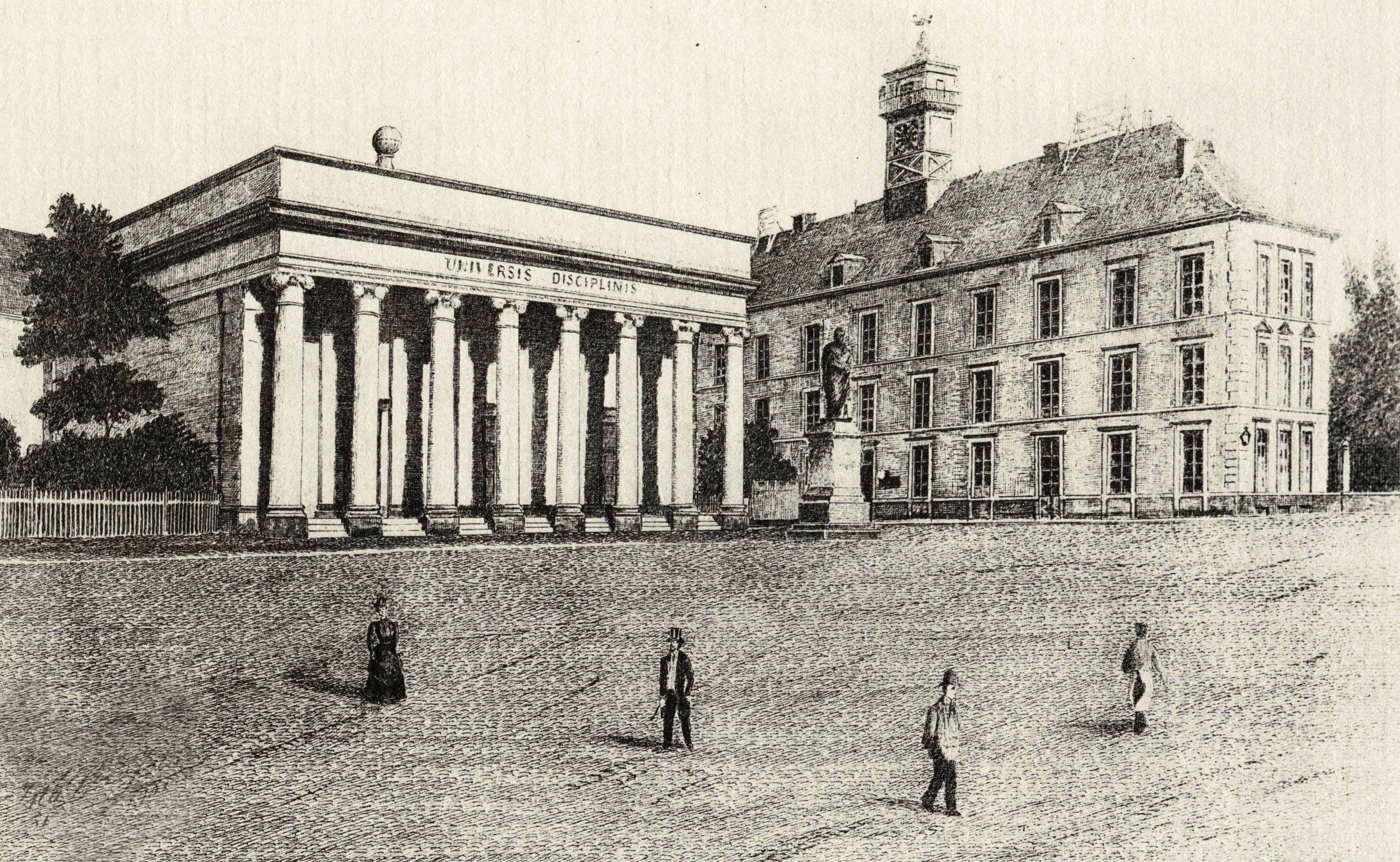 The Great Hall of the University of Liège, with inscription "UNIVERSIS DISCIPLINIS".